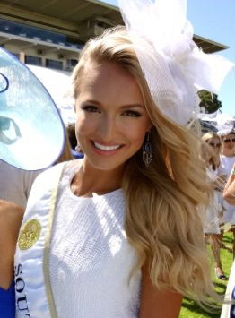 Melinda Bam, Miss South Africa at L'Ormarins Queens Plate 2012